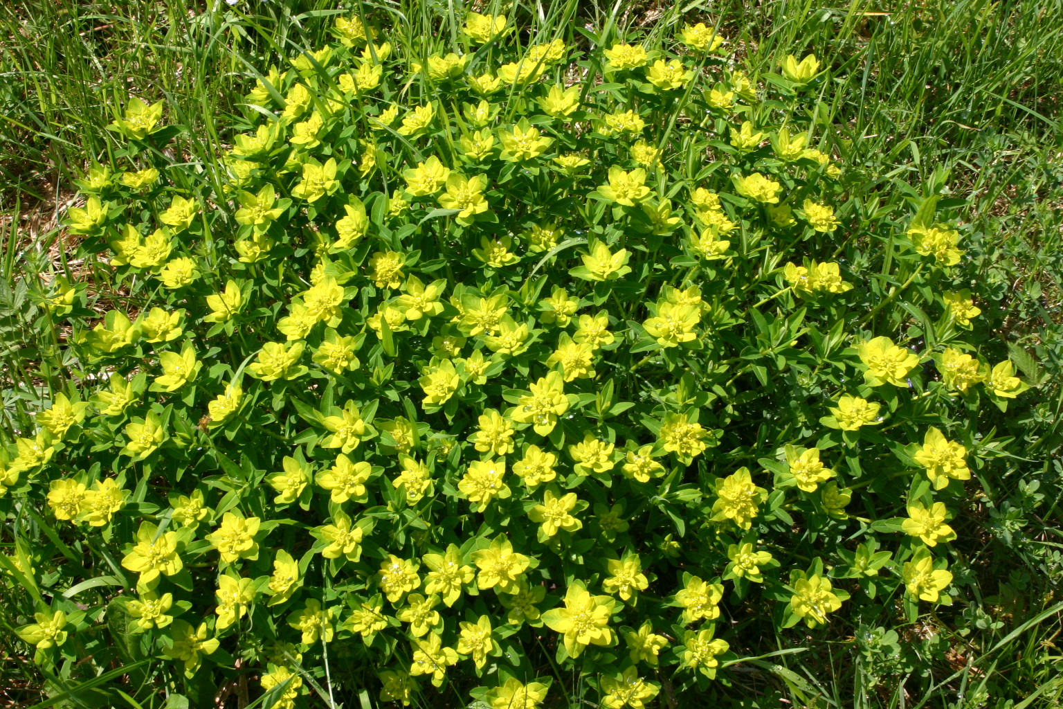 Euphorbia verrucosa